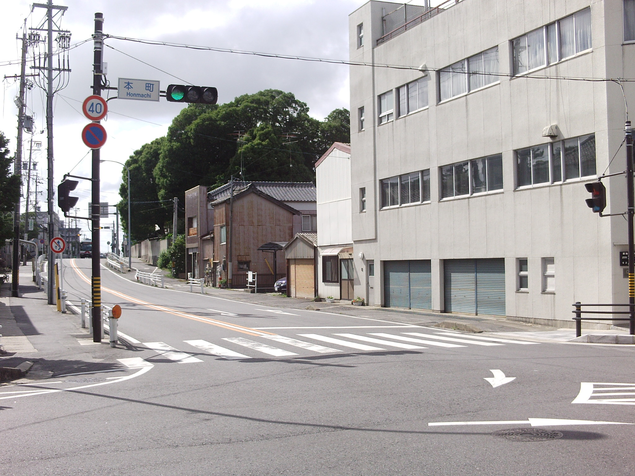 Aichi prefectural road No.311 in Honmachi, Nishio, Aichi.